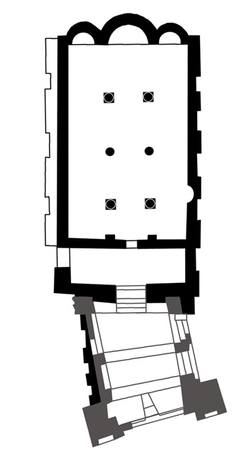 SS. Forty Martyrs Church in Veliko Tarnovo - plan